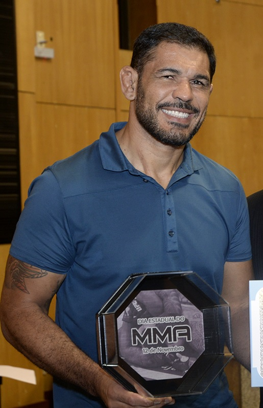 Foto: Reinaldo Carvalho